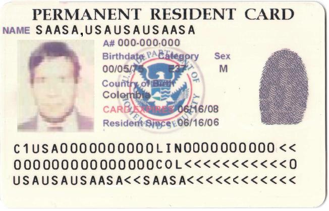 Last(?) Version of U.S. Permanent Resident Card